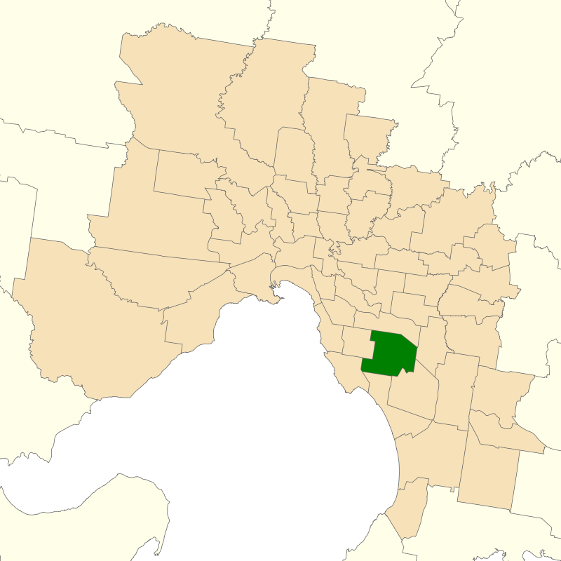 Location of the Victorian electoral district of Clarinda (dark green) in the Greater Melbourne area.